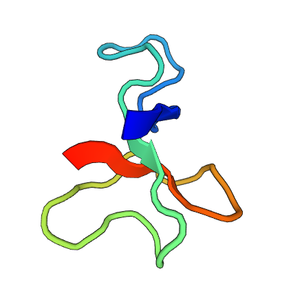 Schematic diagram of the three-dimensional Structure of BcIII based on SWISSMODEL.